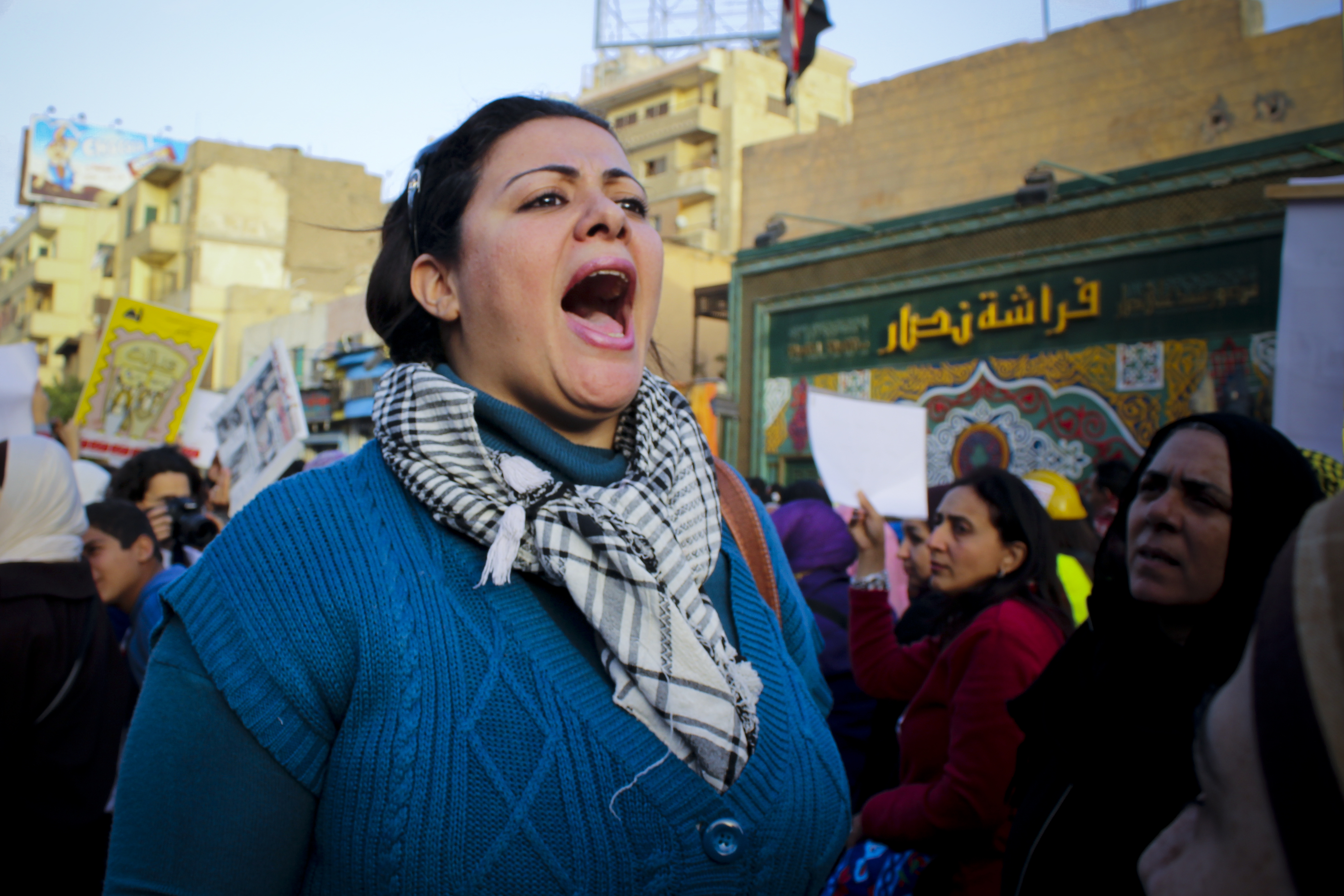 Anti Sexual Harasment March to Tahrir Square in Egypt, feb 6 2013